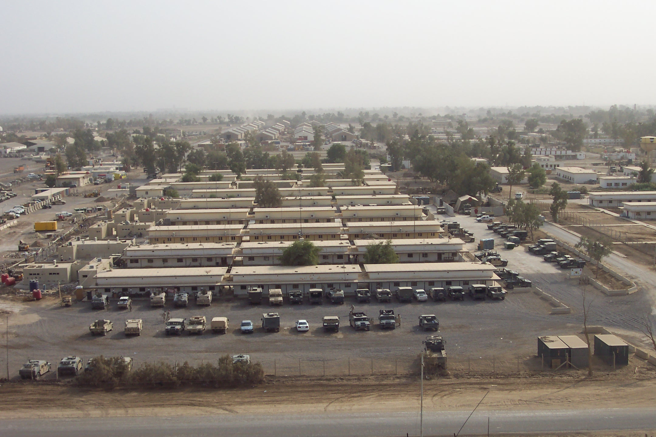 A photo of the 206th Field Artillery and the 39th BCT Headquarters Buildings on Camp Taji in 2005.